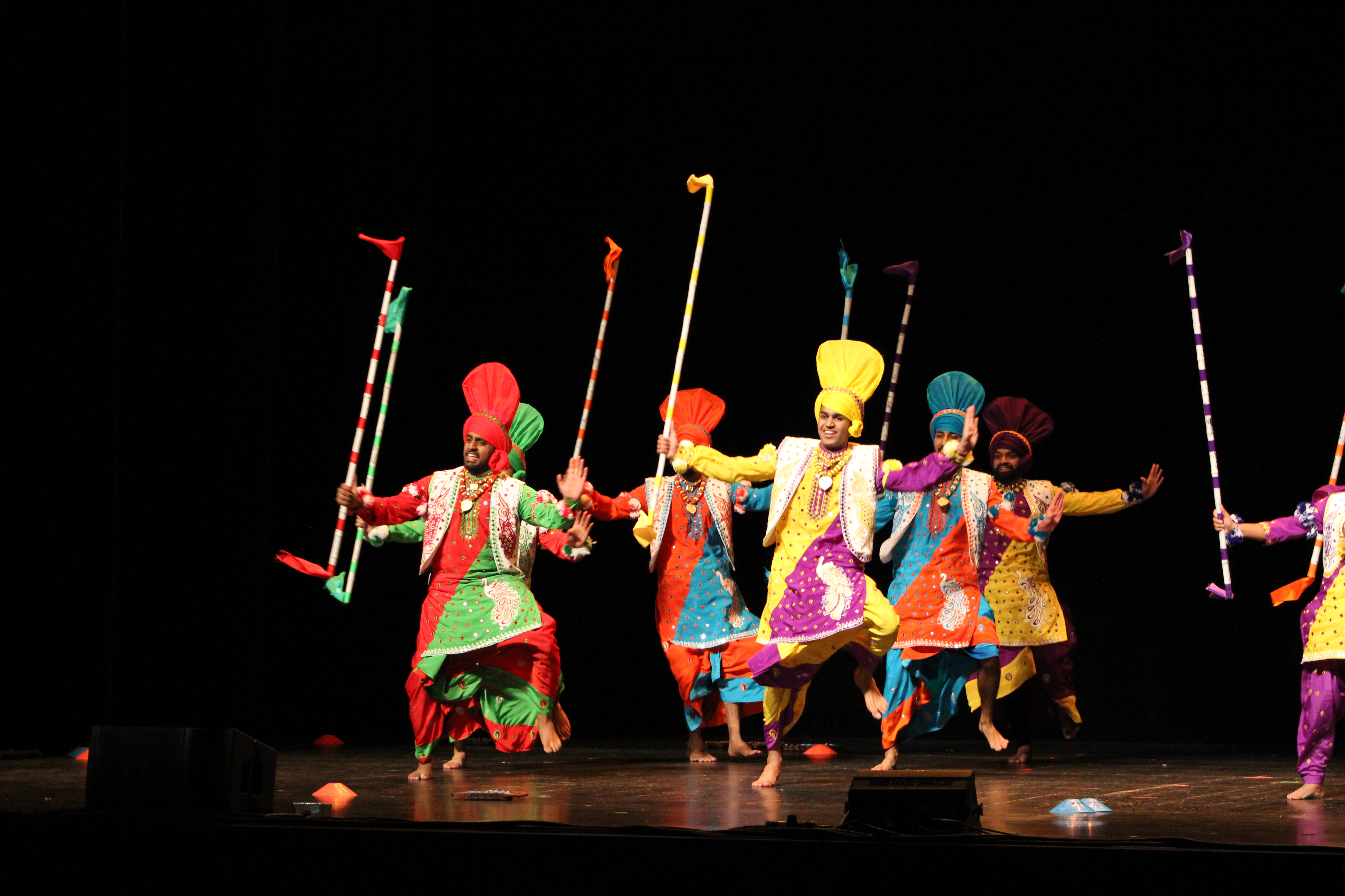 The Spartan Bhangra team performing Bhangra at the annual Buckeye Mela dance competition at Ohio State University in Columbus, Ohio.